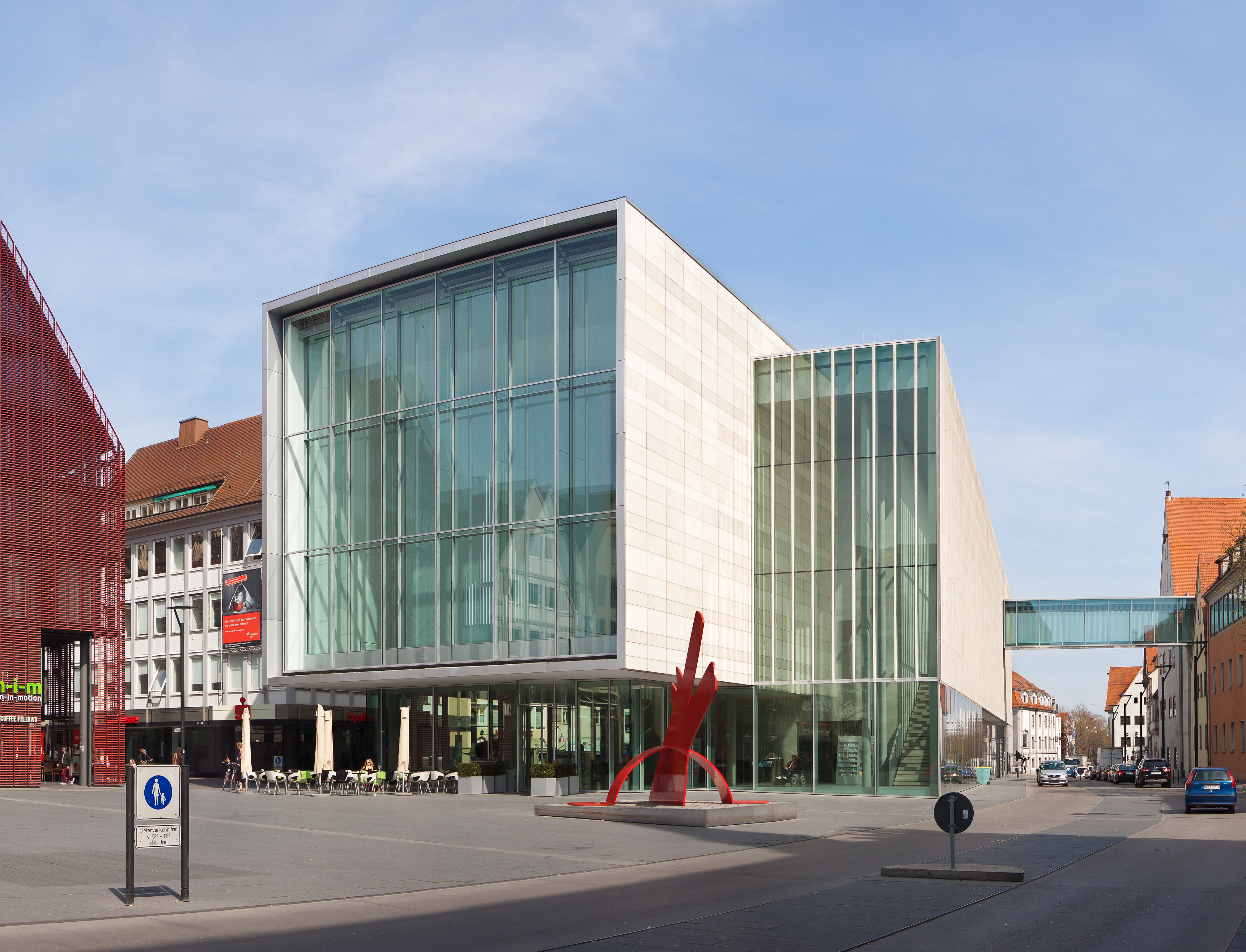 Art Gallery Weishaupt, view from Hans-und-Sophie-Scholl-square.